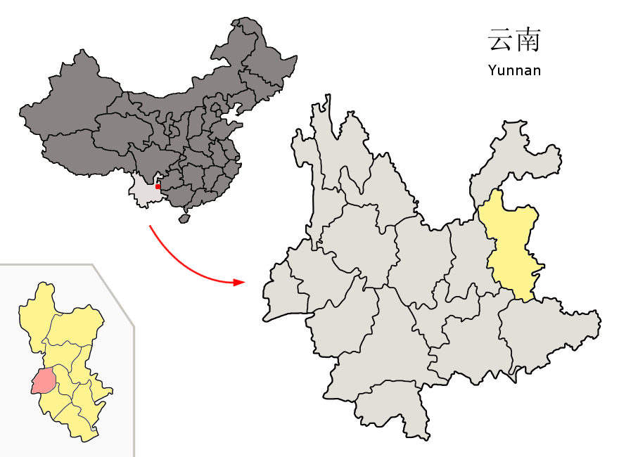 Location of Malong County (pink) and Qujing Prefecture (yellow) within Yunnan province of China Map drawn in september 2007 using various sources, mainly : Yunnan province administrative regions GIS data: 1:1M, County level, 1990 Yunnan Counties map from